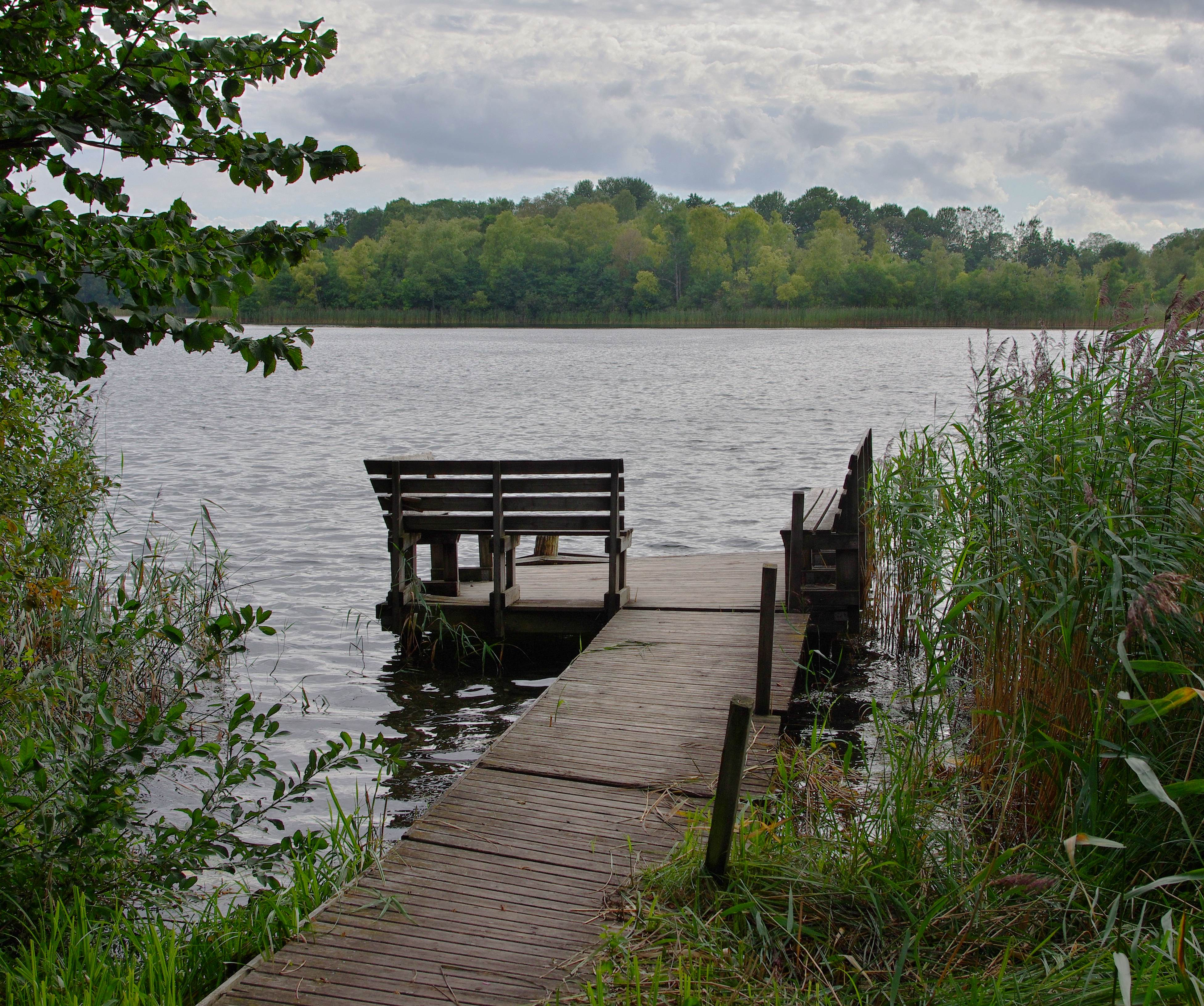 Eggbysjön (swedish:Eggby lake) bordering the village Eggby, Sweden.